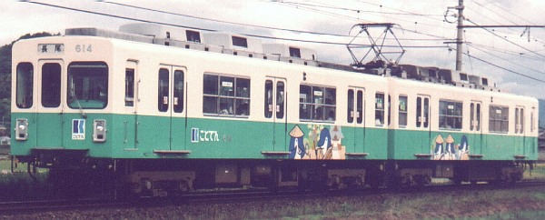 Takamatsu-Kotohira Electric Railroad No 614 at Nishi Maeda